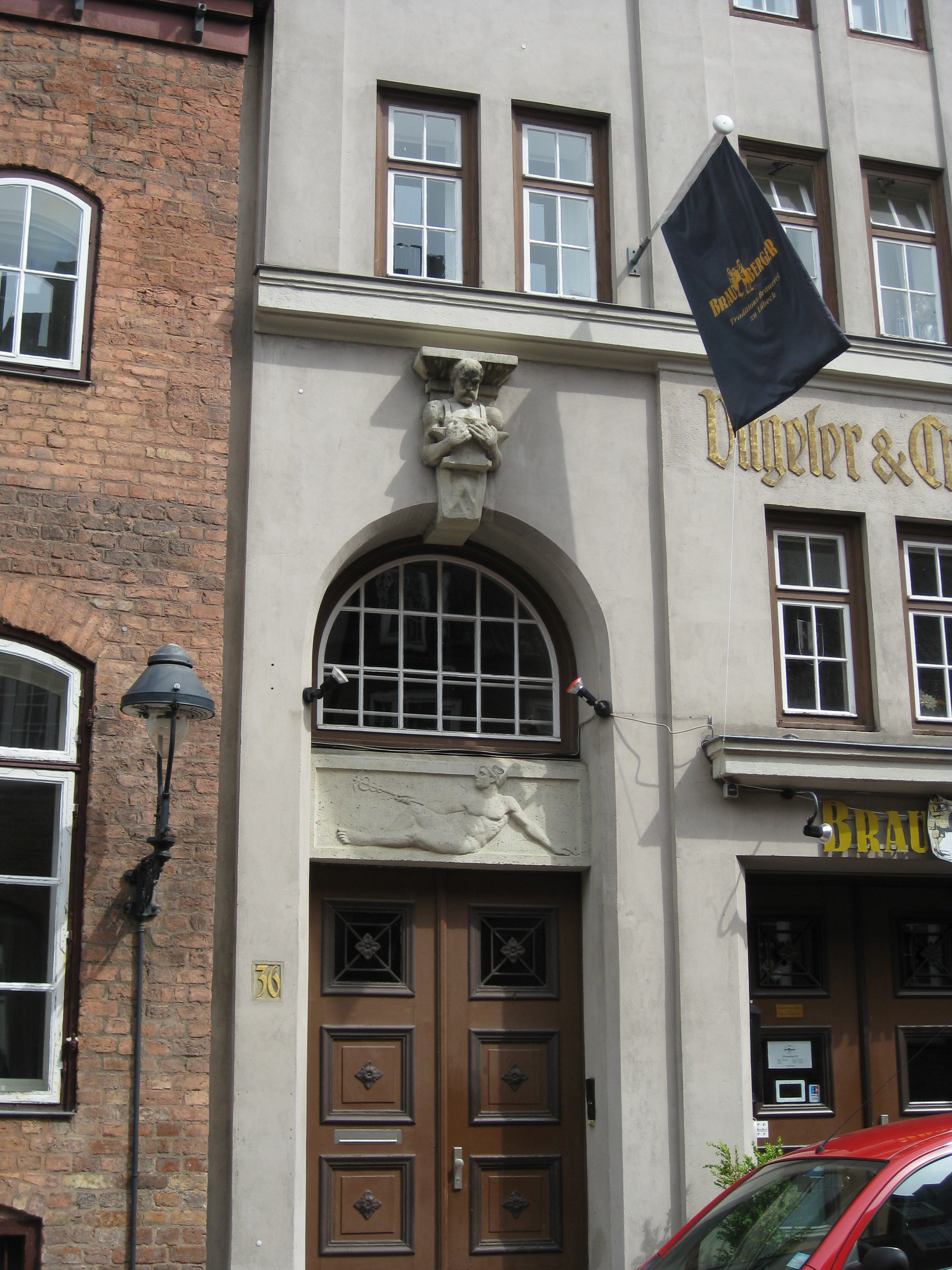 Portal of building Alfstr. 36 in Lübeck's old town.